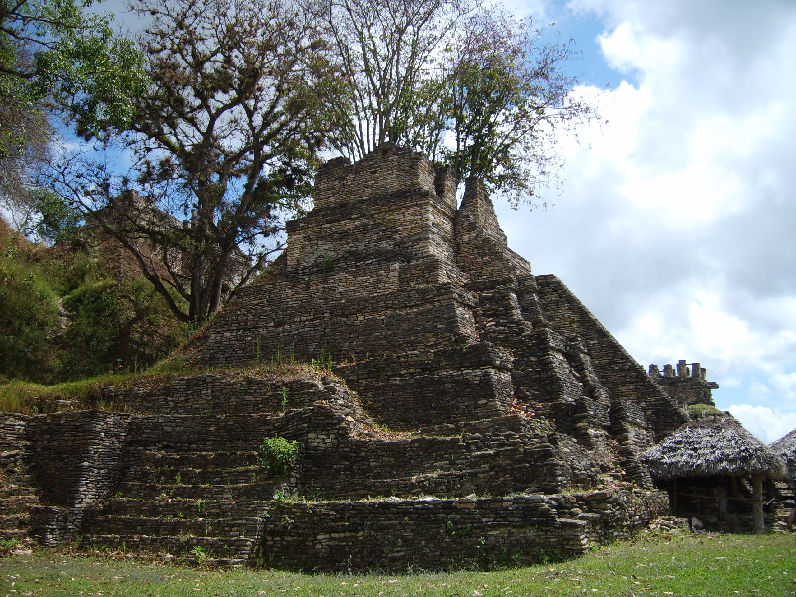 Classic period Maya pyramid at the site of Tonina, Chiapas, Mexico.